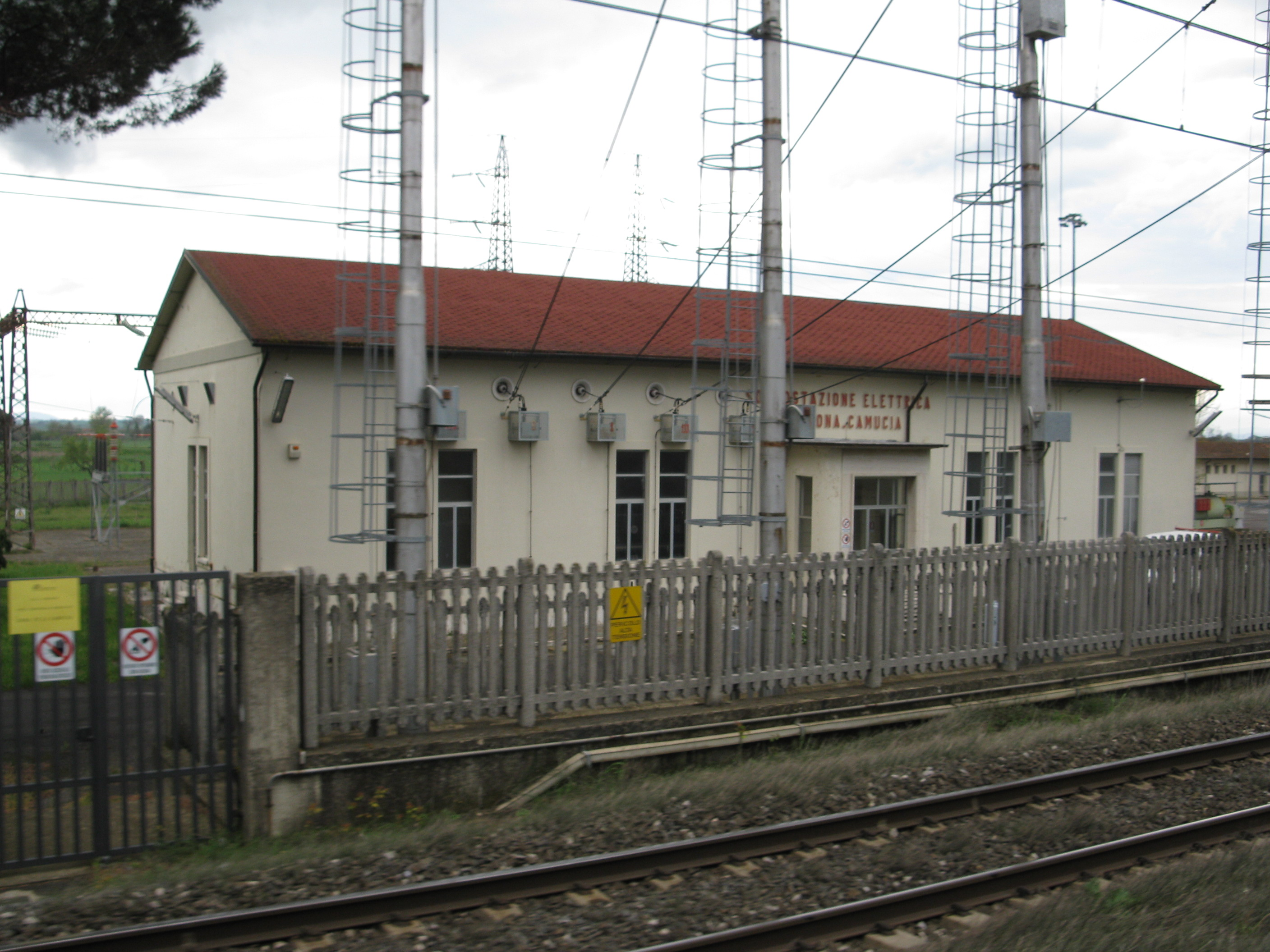 Camucuia-Cortona railway station